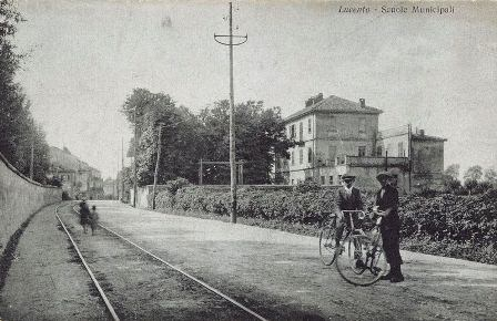 Lucento, scuole